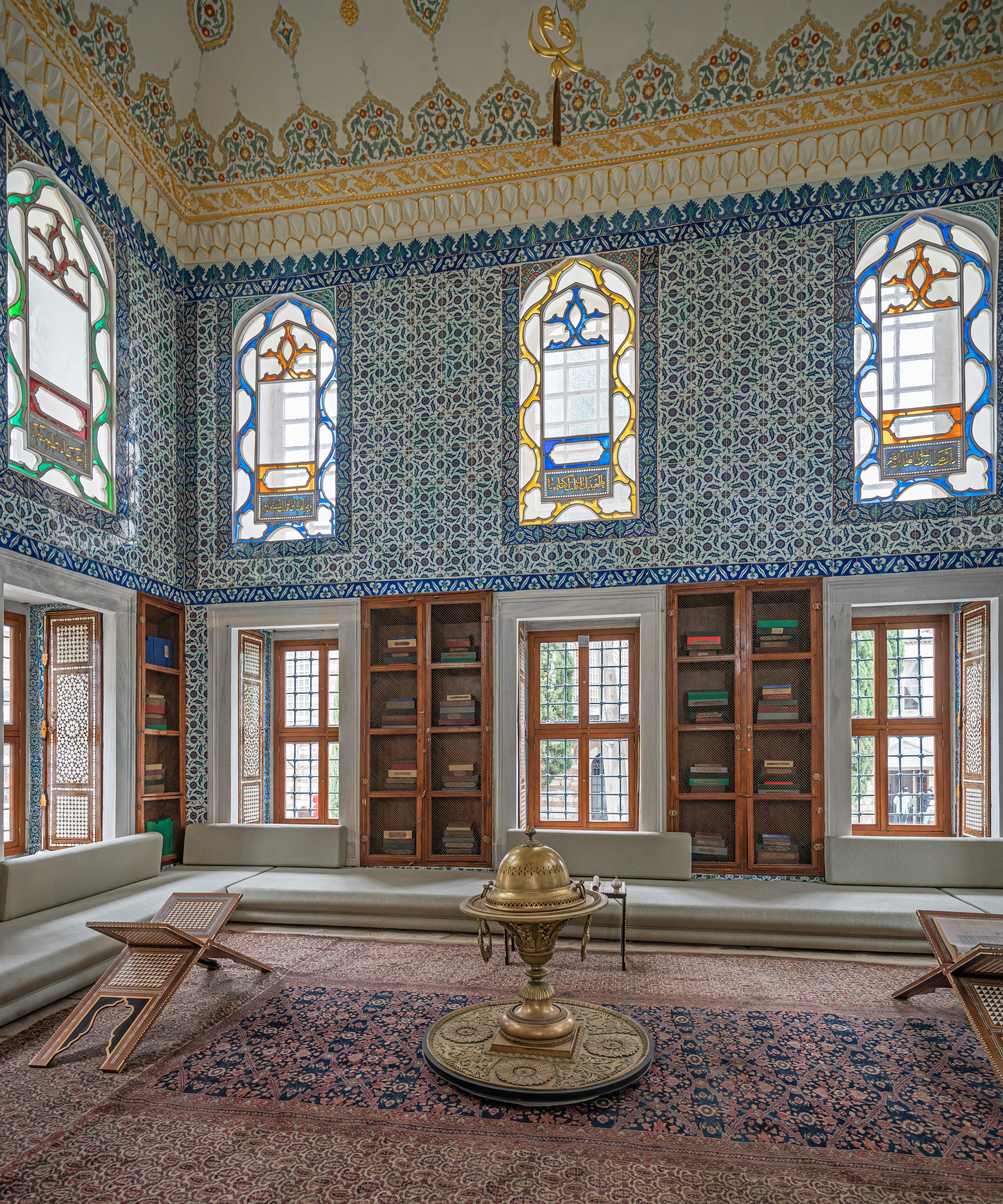 Library of Sultan Ahmed III in Topkapı Palace in Istanbul, Turkey